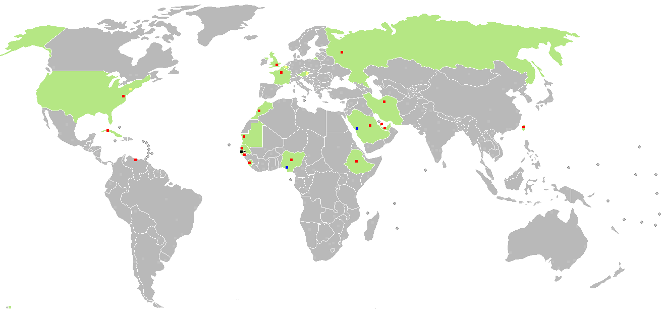 Diplomatic missions of the Gambia